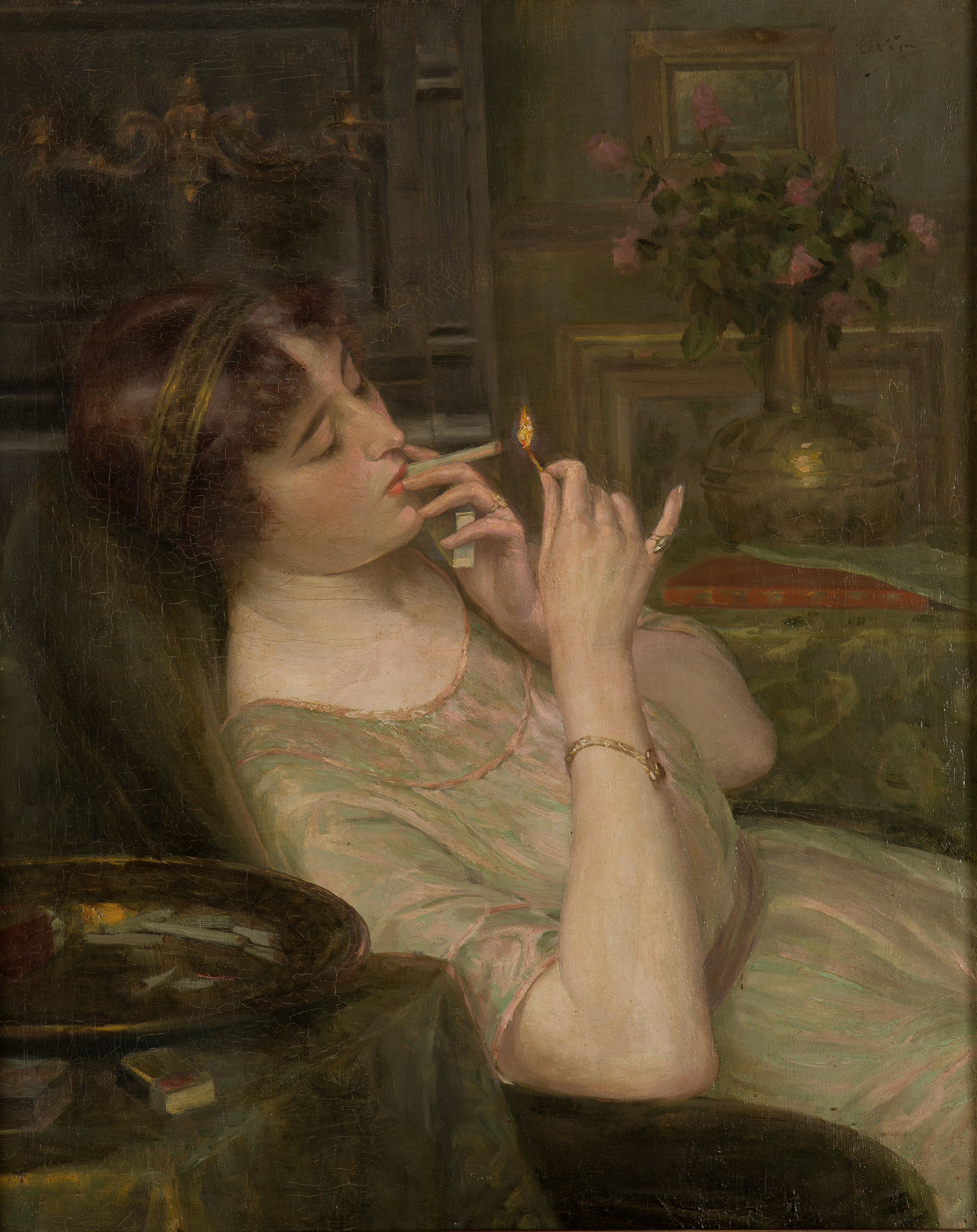 Painting by Auguste Levêque. Portrait of 'Suzanne' (frame excluded).